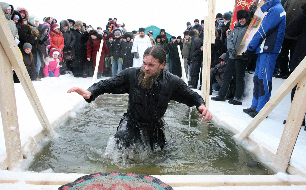 “Bathing in an ice hole”. Bathing in an ice hole at St. Michael the Archangel’s Cathedral in the Sovetsky district, Novosibirsk. Orthodox believers celebrating the Feast of the Epiphany.